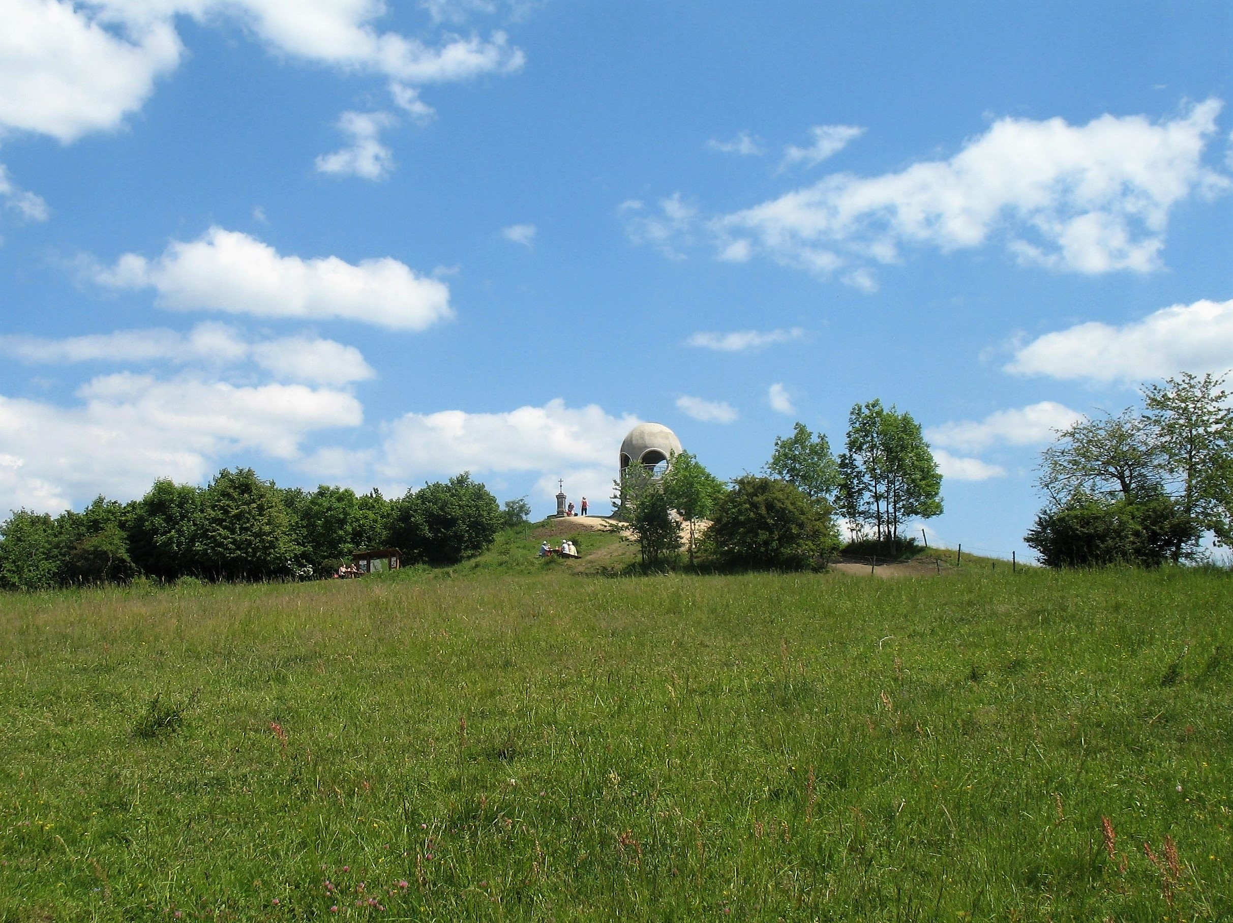 Observation tower Růženka in Růžová, Děčín District, Czech Republic